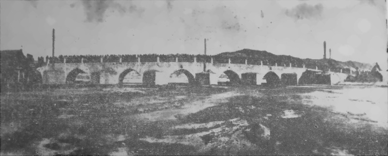 Pudu Bridge during early Republic of China.